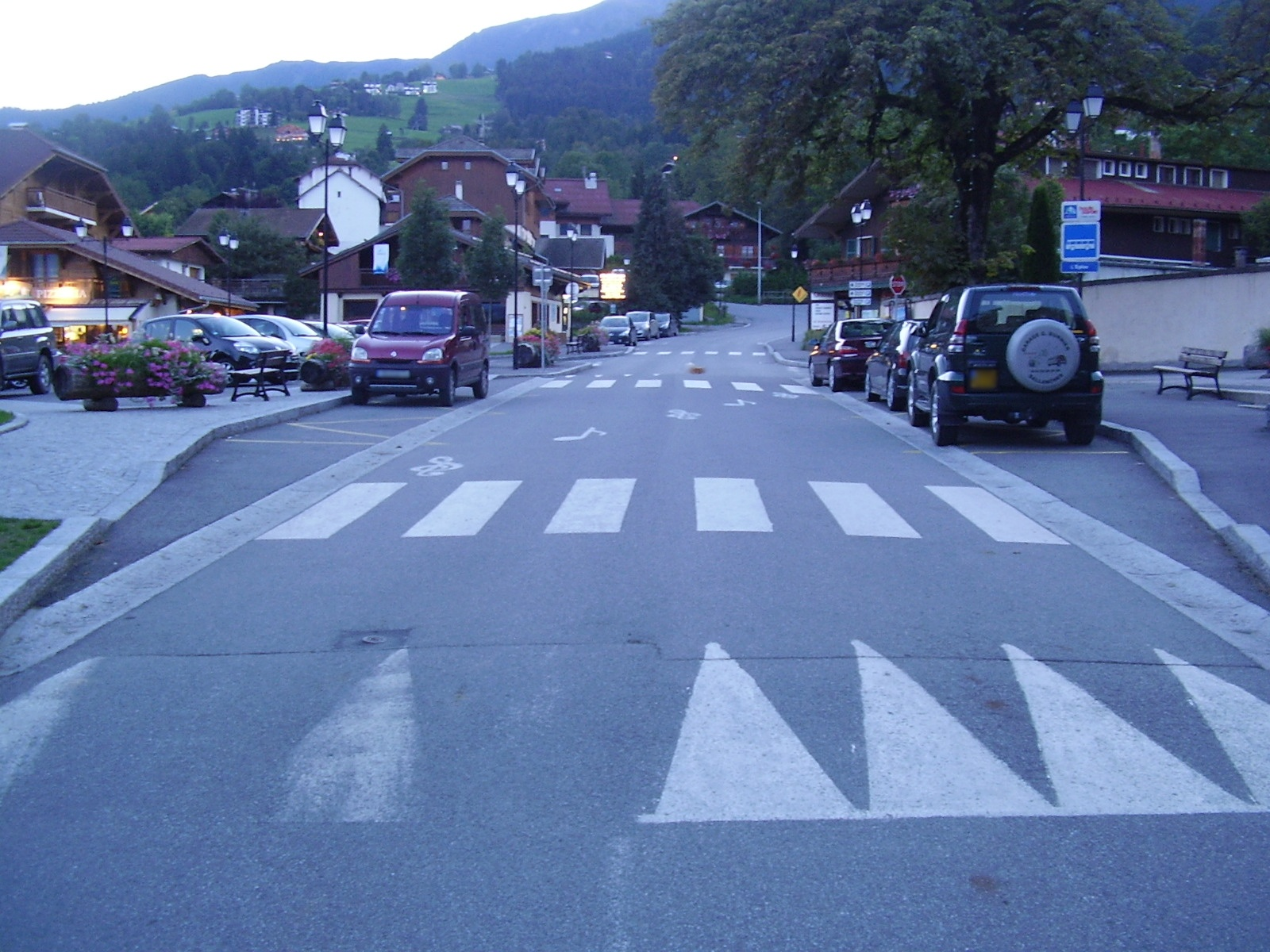 Departmental road 113 in Cordon, Haute-Savoie, Rhône-Alpes, France. Pedestrian crossings and musical notes drawn on a traffic calming… Camera elevation 870 m/2,855 ft